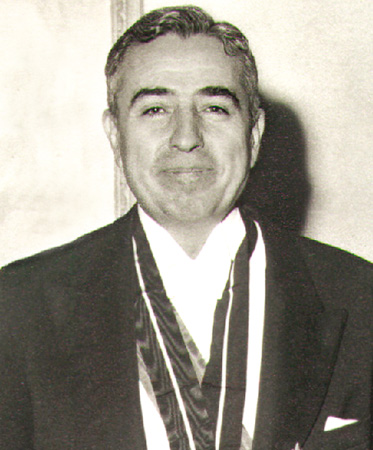 Anwar Nuseibeh ( Arabic: انور نسيبة ) Anwar Nuseibeh (1913–1986) was a Palestinian nationalist